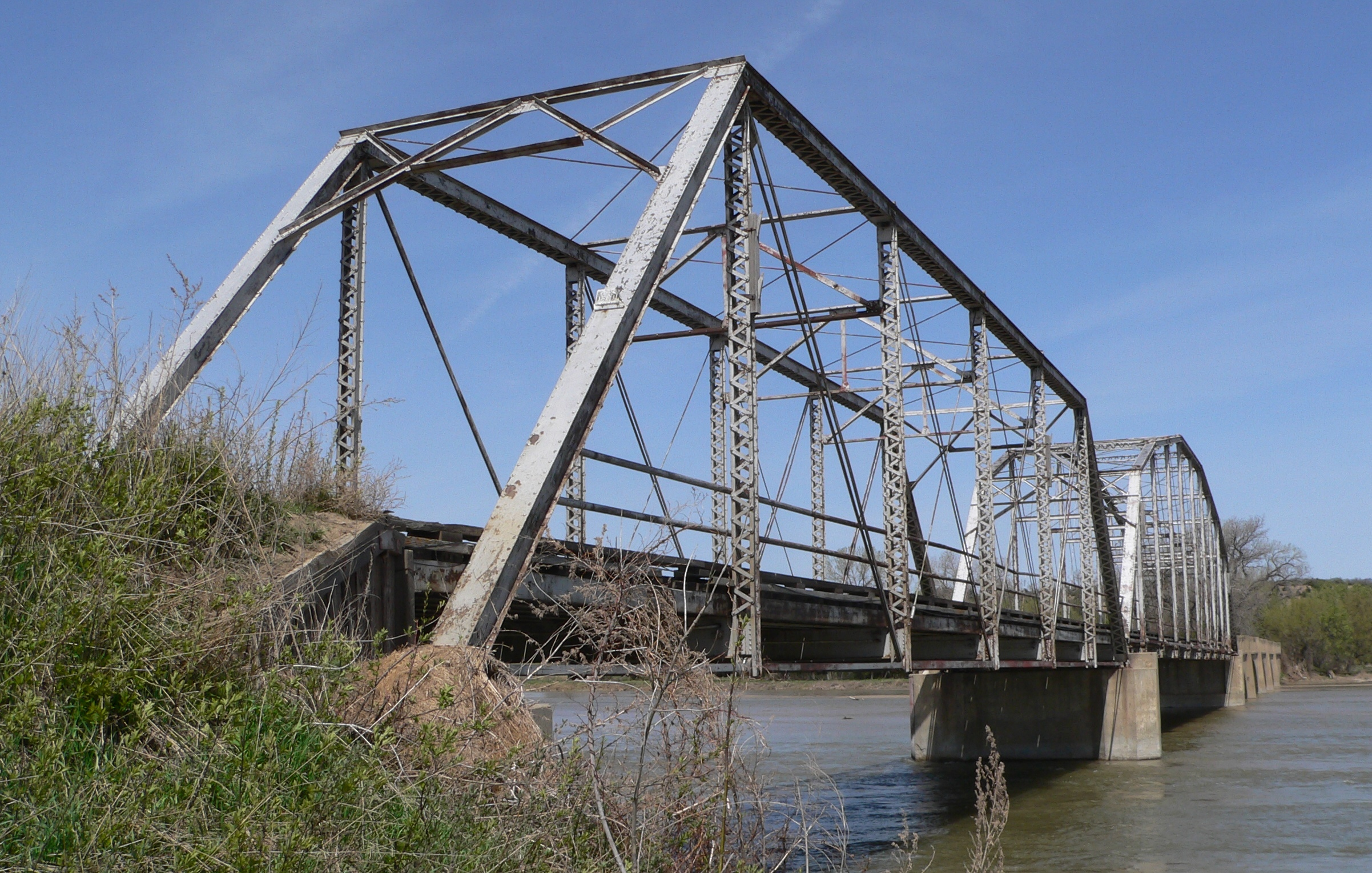 Carns State Aid Bridge, crossing the Niobrara River from Brown County, Nebraska on the south bank to Keya Paha County, Nebraska on the north; seen from the southeast. The northern portion of the bridge is a set of five concrete-filled spandrel arch spans; it was built in 1913. A sixth southern span and the approach to the bridge were washed out in 1962; the gap was filled with two truss spans salvaged from elsewhere in the state. The bridge is listed in the National Register of Historic Places.